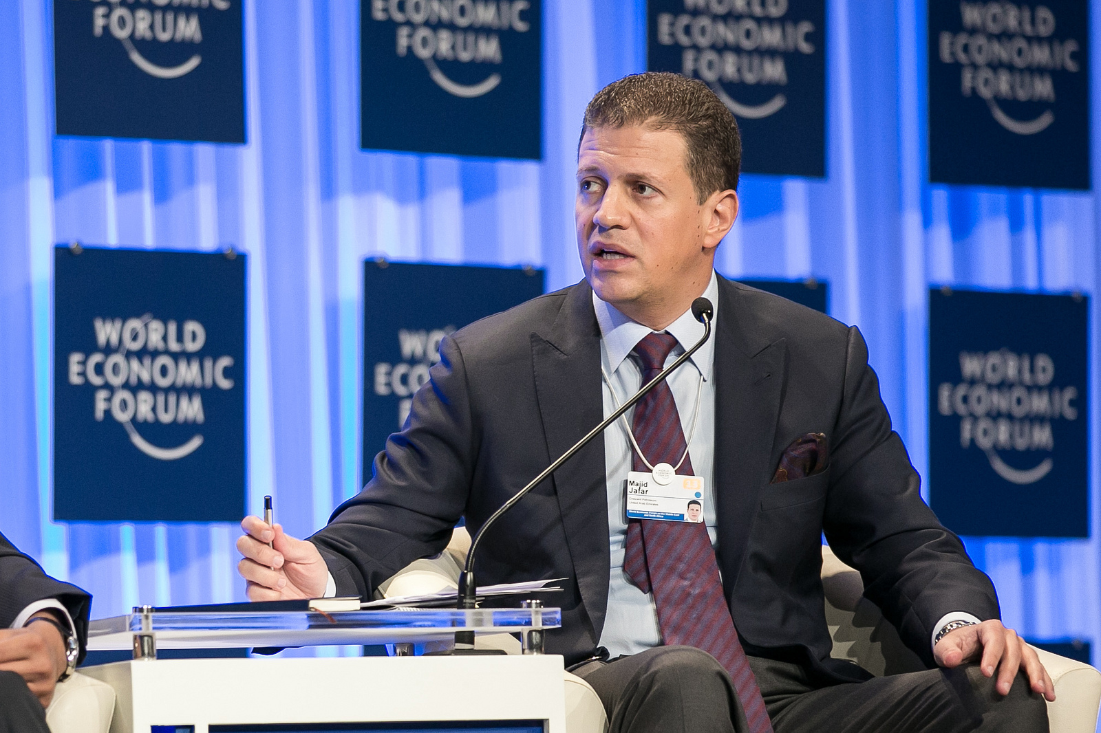 Majid Jafar speaking at the World Economic Forum